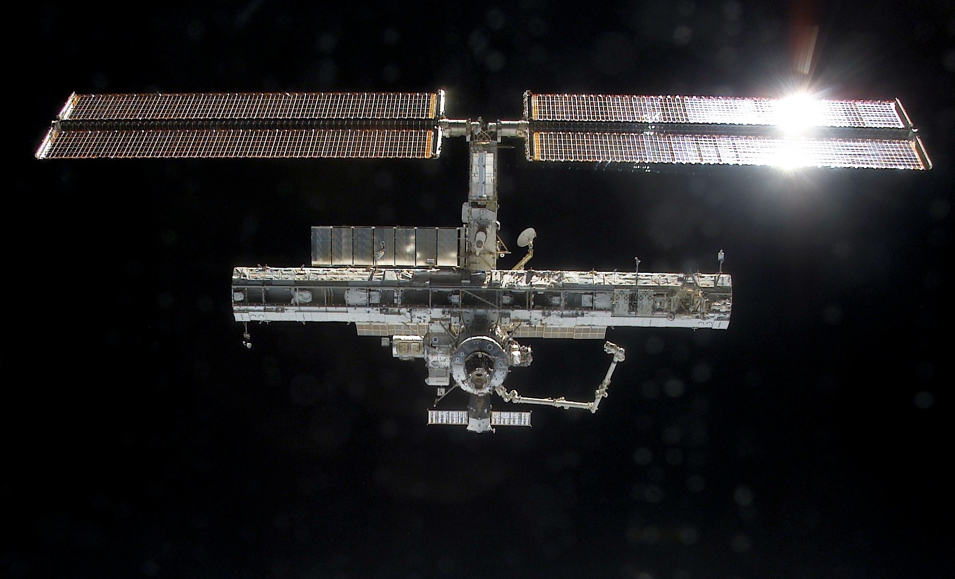 View of the International Space Station from the departing Space Shuttle on mission STS-113